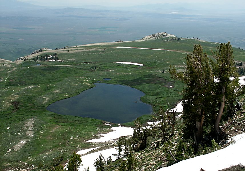 Robinson Lake, Nevada, looking southeast (and down) from the Ruby Crest.